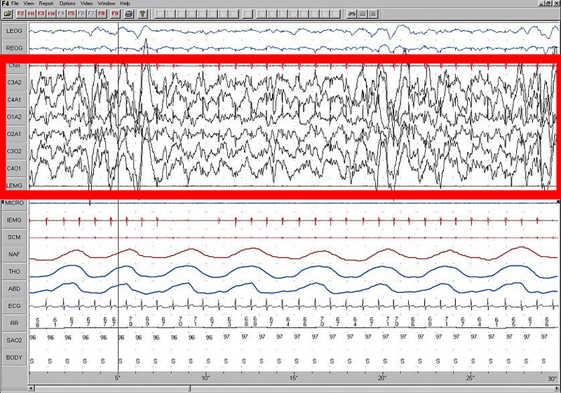 This is a screen shot of a patient during Slow Wave Sleep (stage N3). The high amplitude EEG is highlighted in red. This screen shot represents a 30 second epoch (30 seconds of data).